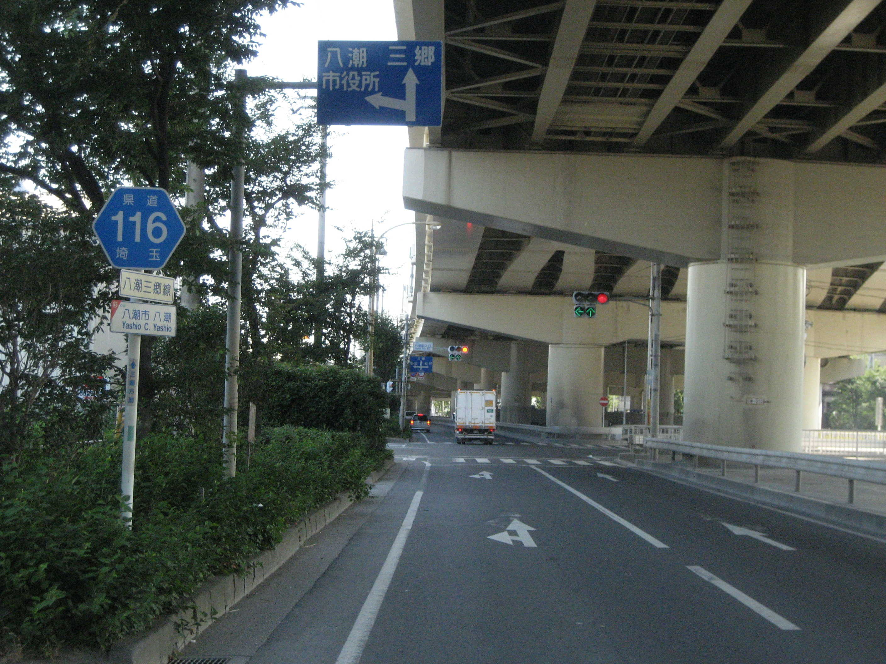 The Saitama Prefectural Road Route 116 at the Yashioeki-iriguchi Intersection in Misato City